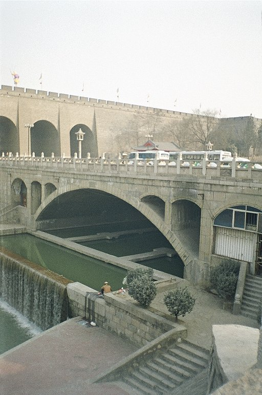 A woman does her laundry under the ancient walls of Xi'an